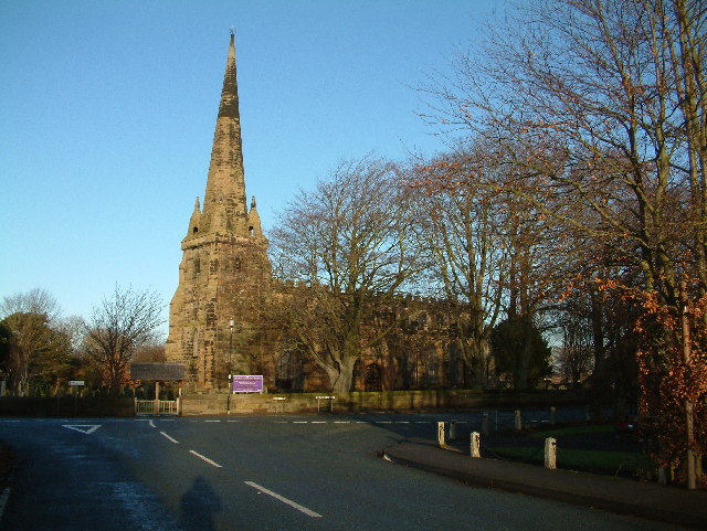 St Helen's Better known as Sefton Church. First built around 1170 as a private chapel for the Molyneux family. Around 1320 the present tower was built, and the church was completed in the early 1500s.